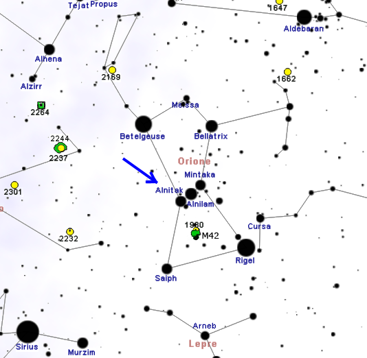 M78